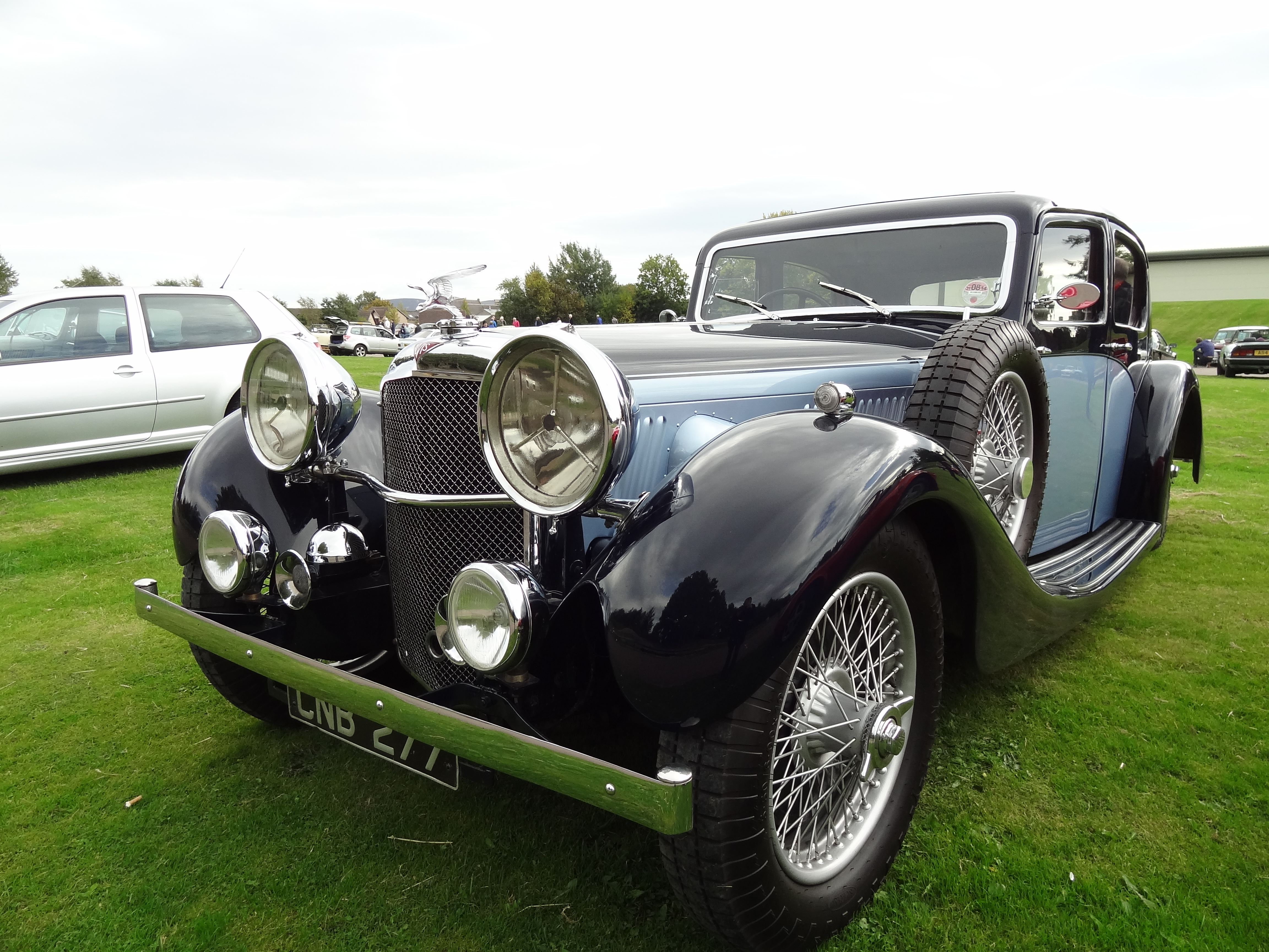 Alvis Speed Twenty SD 1936 by Lancefield(DVLA) first registered 31 December 1936, 2762cc